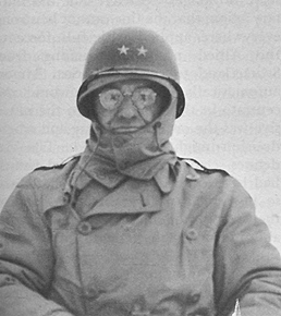 MG Troy Houston Middleton, Ardennes, 1944